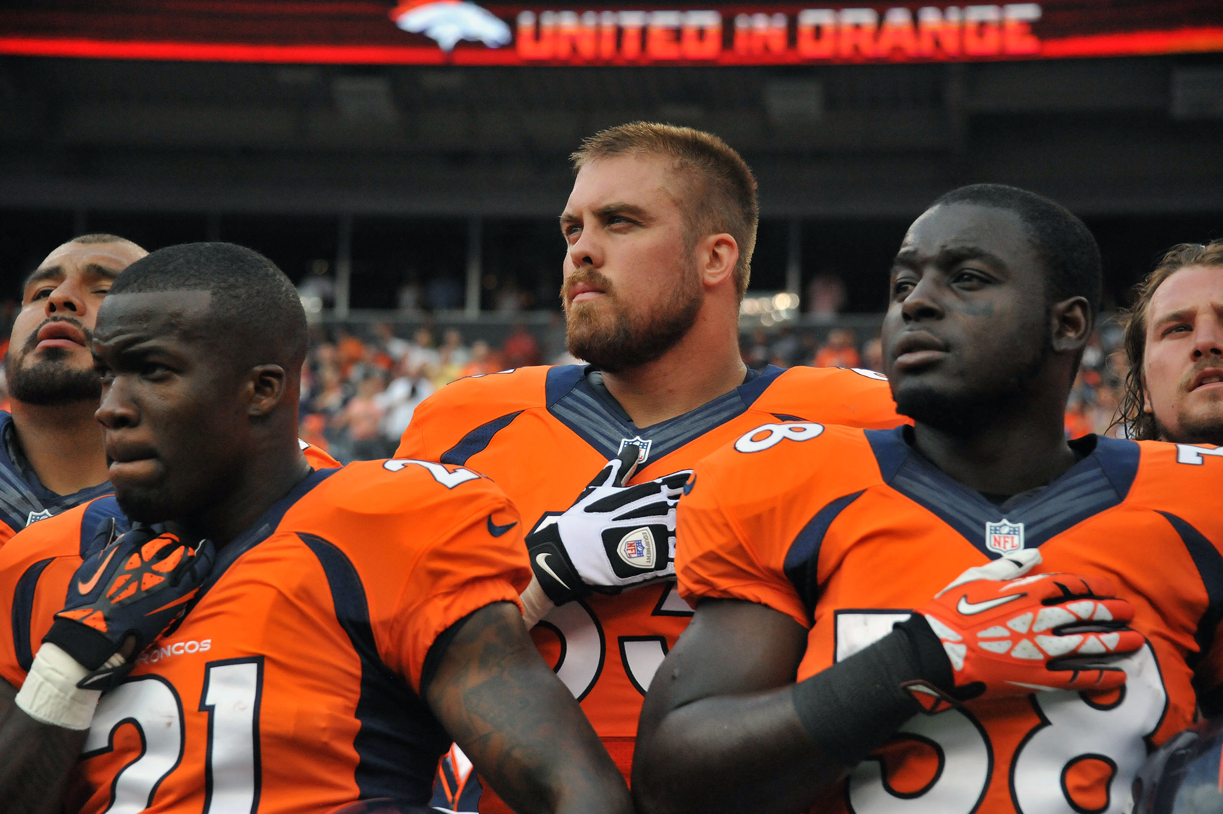 Air National Guard 1st Lt. Benjamin Garland, Denver Broncos Offensive Guard and 140th Wing Public Affairs Officer, stand with Ronnie Hillman (21) and Montee Ball (38) as he listens to the National Anthem at Sports Authority Field at Mile High Stadium, Denver, Colo. Aug 24, 2013. Garland, who originally entered the National Football League in 2010 after graduating from the U.S. Air Force Academy, was on the Bronco’s reserve/military list while fulfilling his active duty obligations in the Air Force. In 2012 Garland joined the Colorado Air National Guard and made the Broncos practice squad as a defensive lineman and is competing this season to make the 53 man final roster. (Air National Guard photo by Tech. Sgt. Wolfram M. Stumpf/RELEASED)